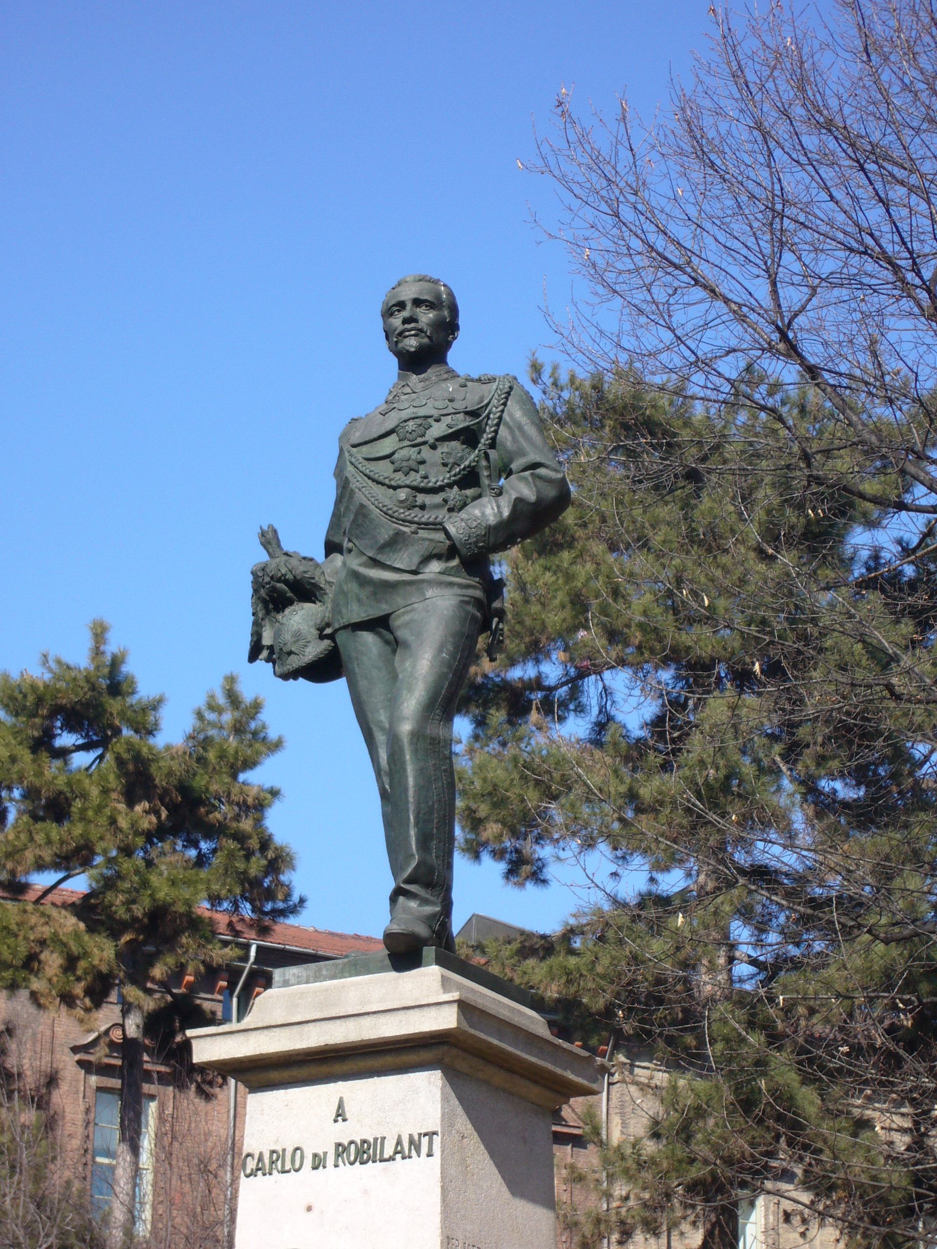 Monument in Turin to the italian general and politician Carlo Felice Nicolis, Count di Robilant (1826-1888).